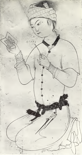 Yusif Mirza, son of Uzun Hasan